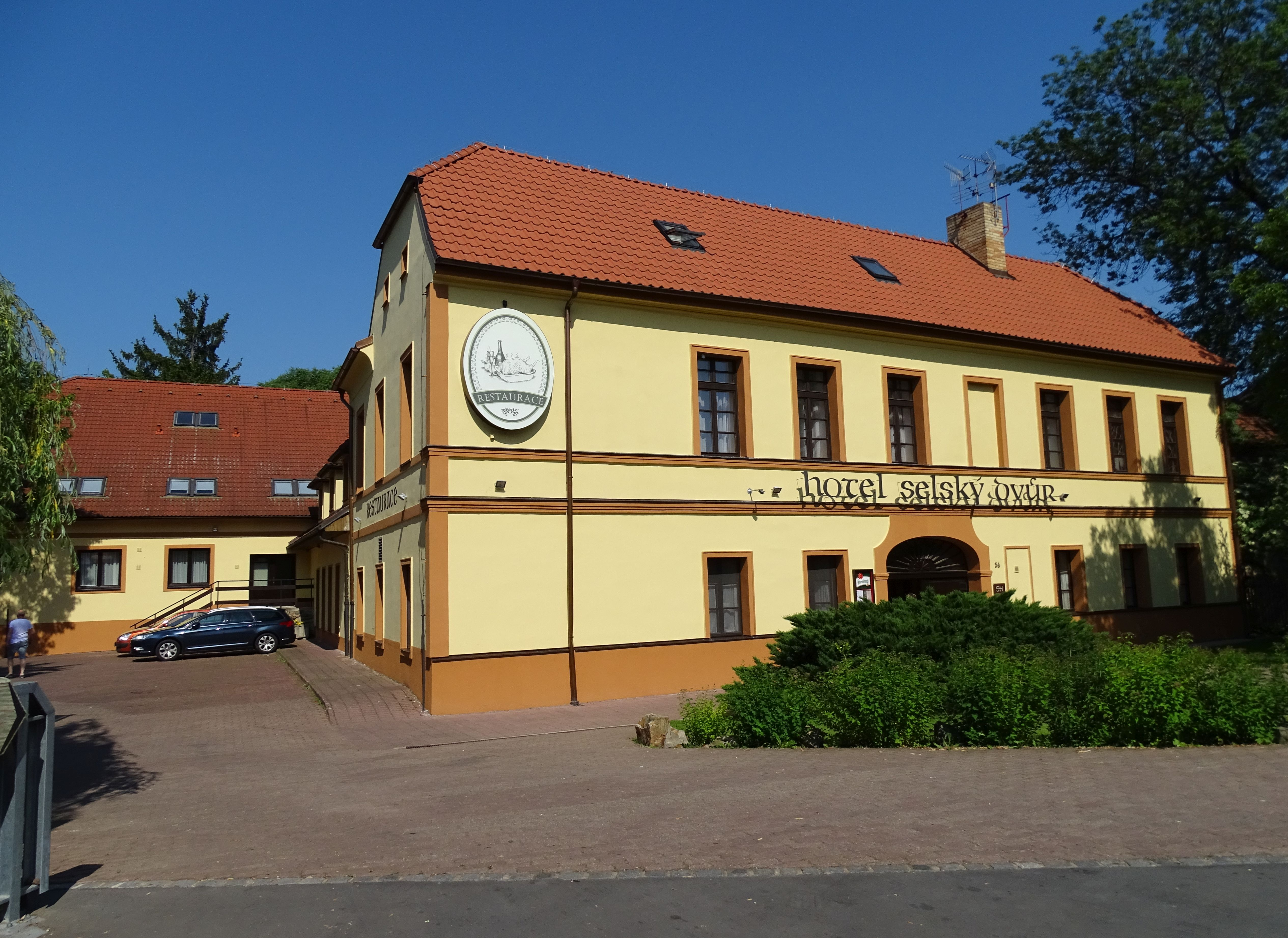 Prague-Hostivař, Czech Republic. K Horkám 47/56, Selský dvůr.